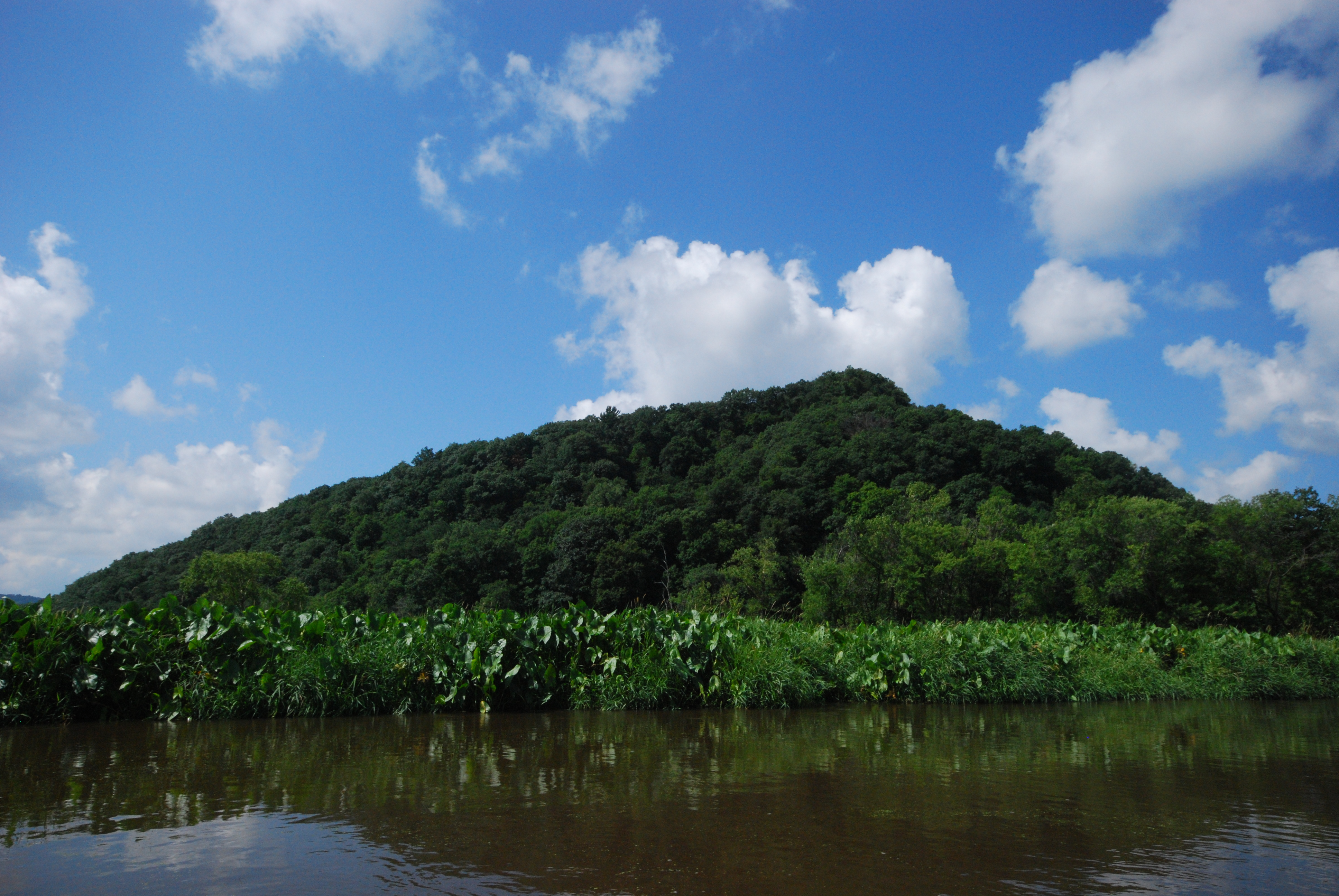 Trempealeau Mountain from the Trempealeau River